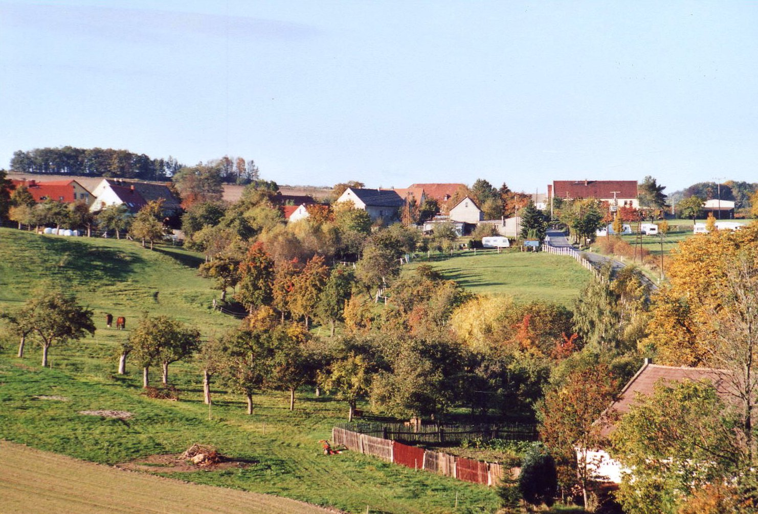 Bahretal: view onto Niederseidewitz